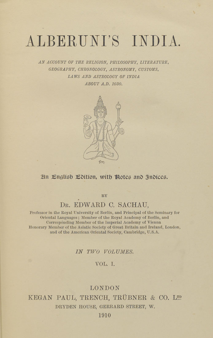 cover of Bīrūnī, Muḥammad ibn Aḥmad. Alberuni's India. An English edition, London: Kegan Paul, Trench, Trübner & Co., 1910. 2 volumes.